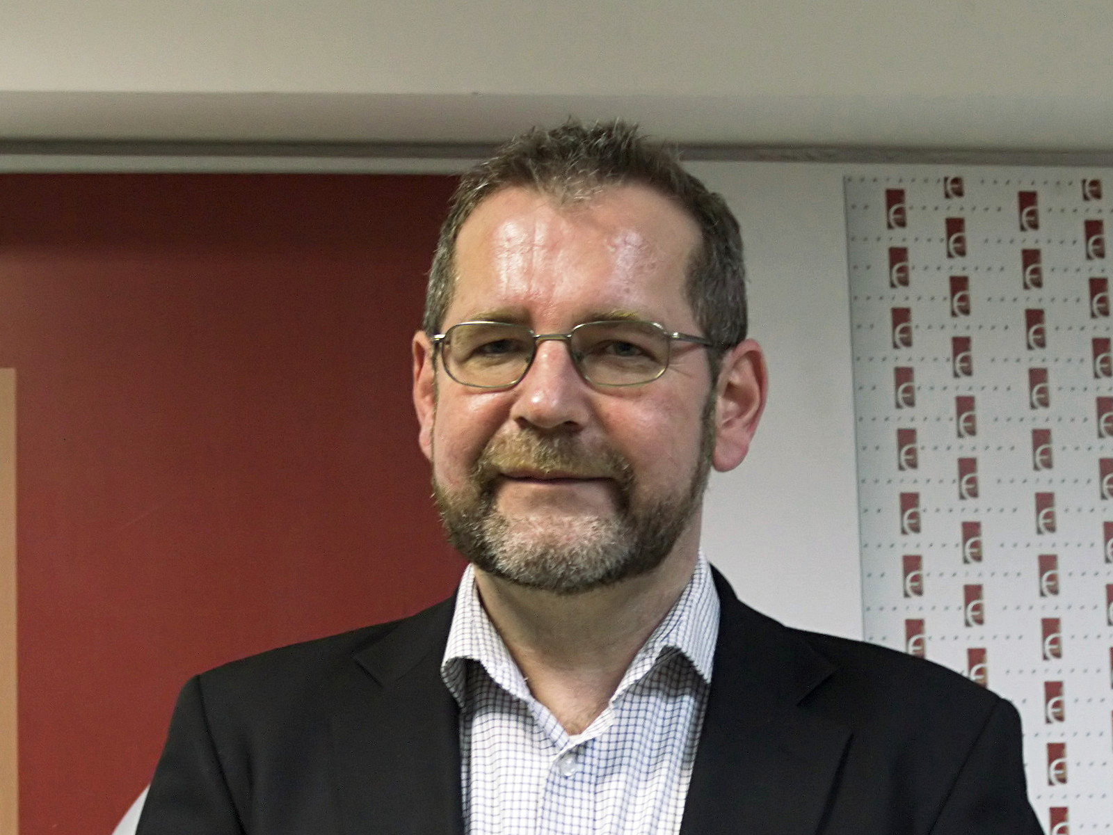 Michael Moser lecture on the "Bookstore Є". February 19, 2016, Kyiv.